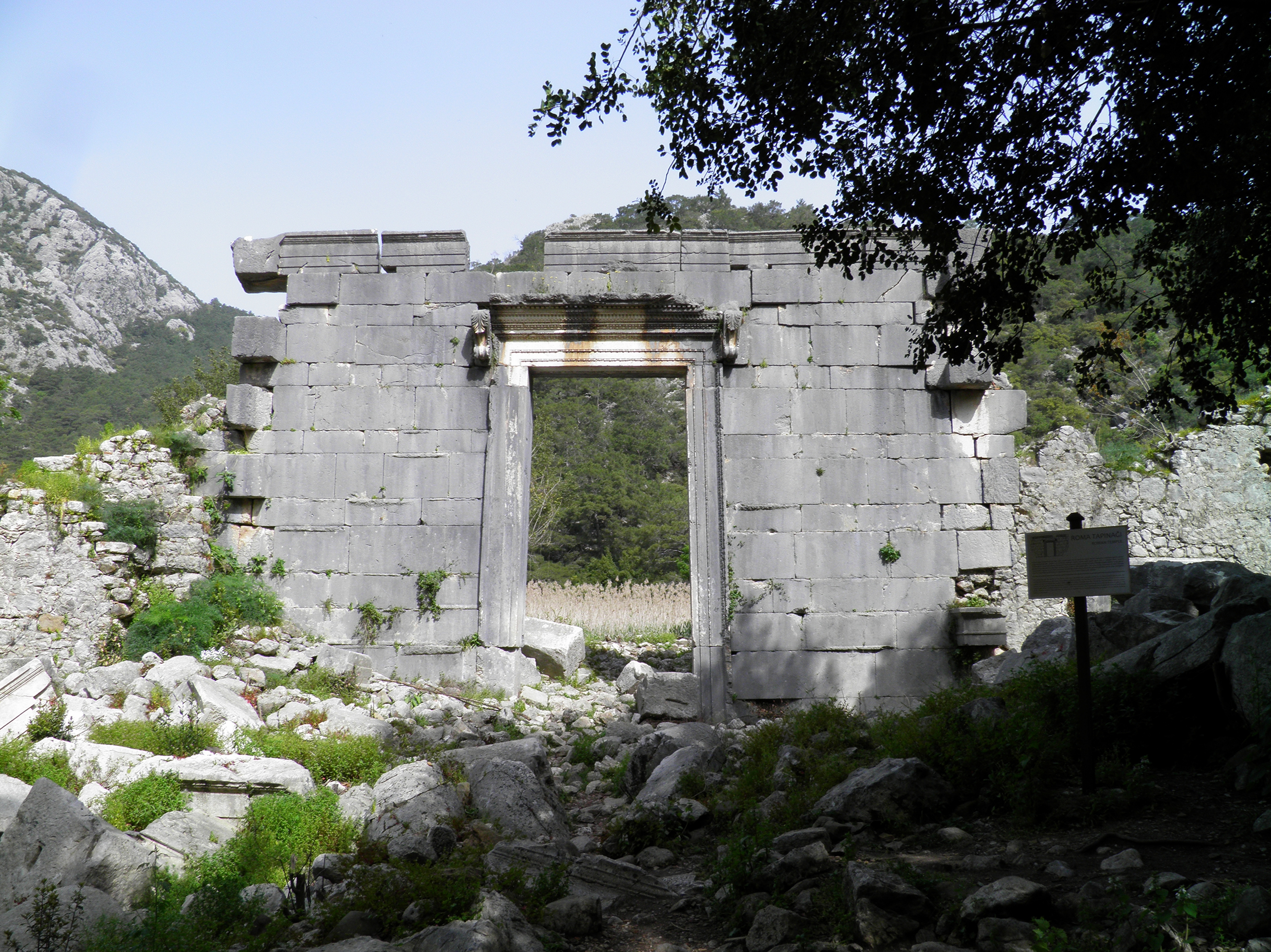 Roman Temple, probably of Marcus Aurelius according to an inscription found on a statue base erected in his honour, Olympos, Turkey